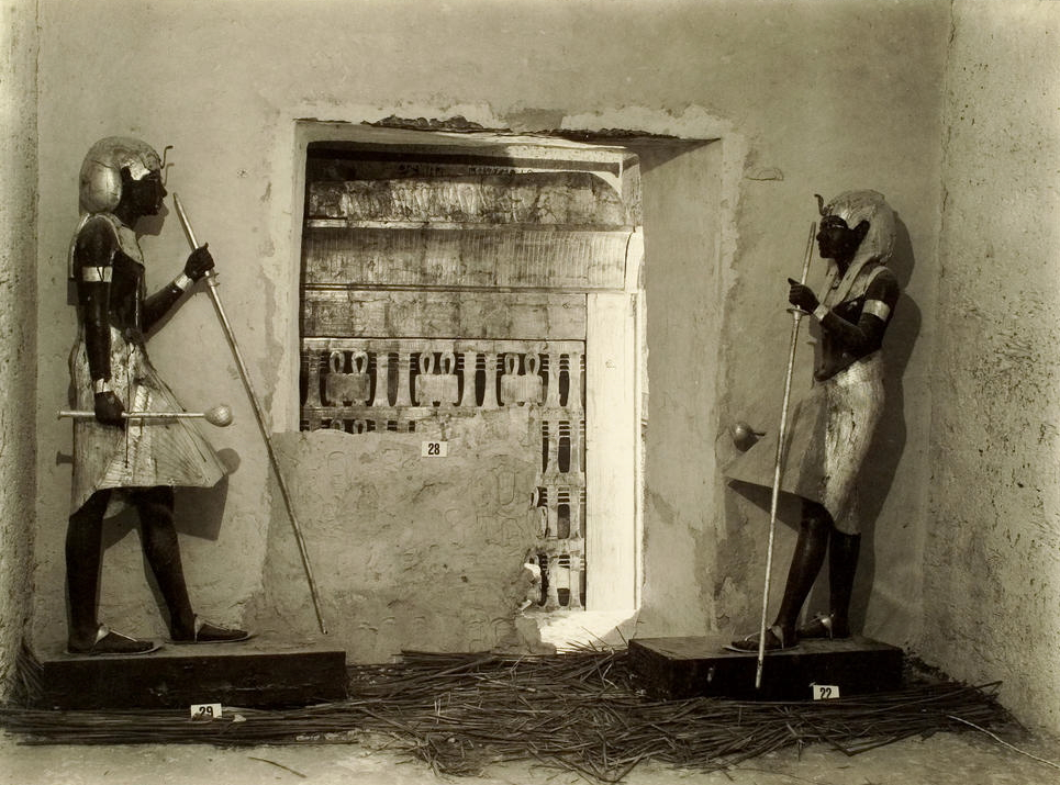 Harry Burton: Tutankhamun tomb photographs: a photographic record in 5 albums containing 490 original photographic prints ; representing the excavations of the tomb of Tutankhamun and its contents. Vol. 4